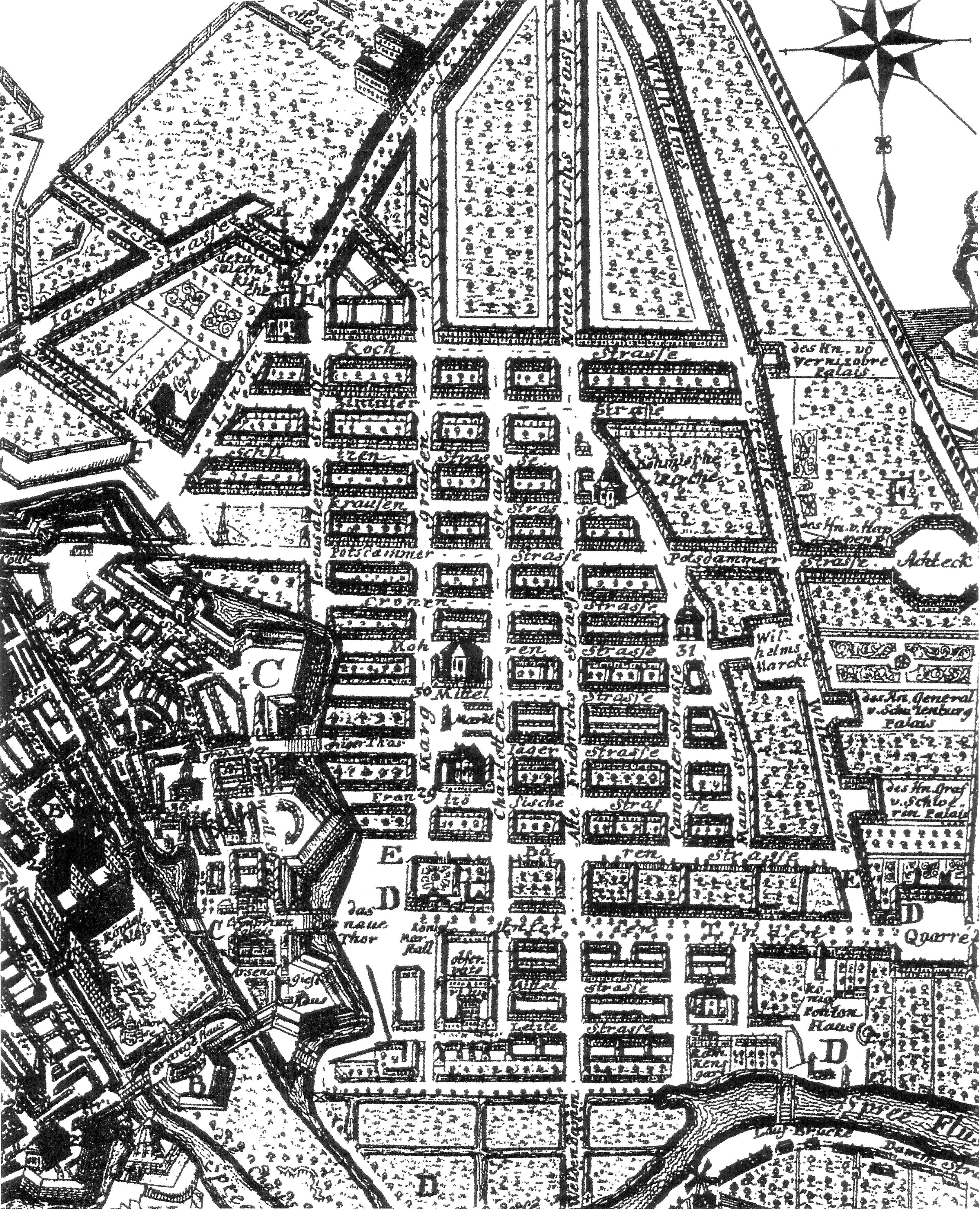 Cut from a map with the title "Königliche Residenz Berlin", Friedrichstadt